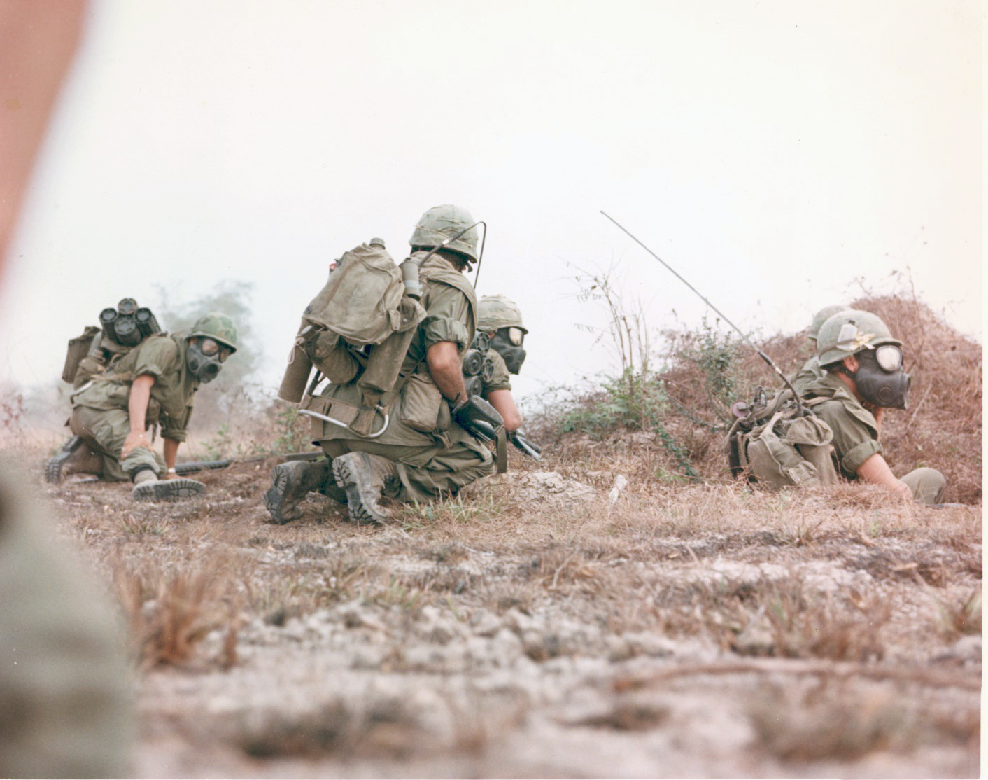 Original caption: Operation "Tra Hung Doa" Members of the 1st Plt, Co "C", 2nd Bn, 27th Inf, 3rd Bde, 25th Inf Div, wearing protective masks, wait for orders to move out after having established a defense perimeter at the landing zone.